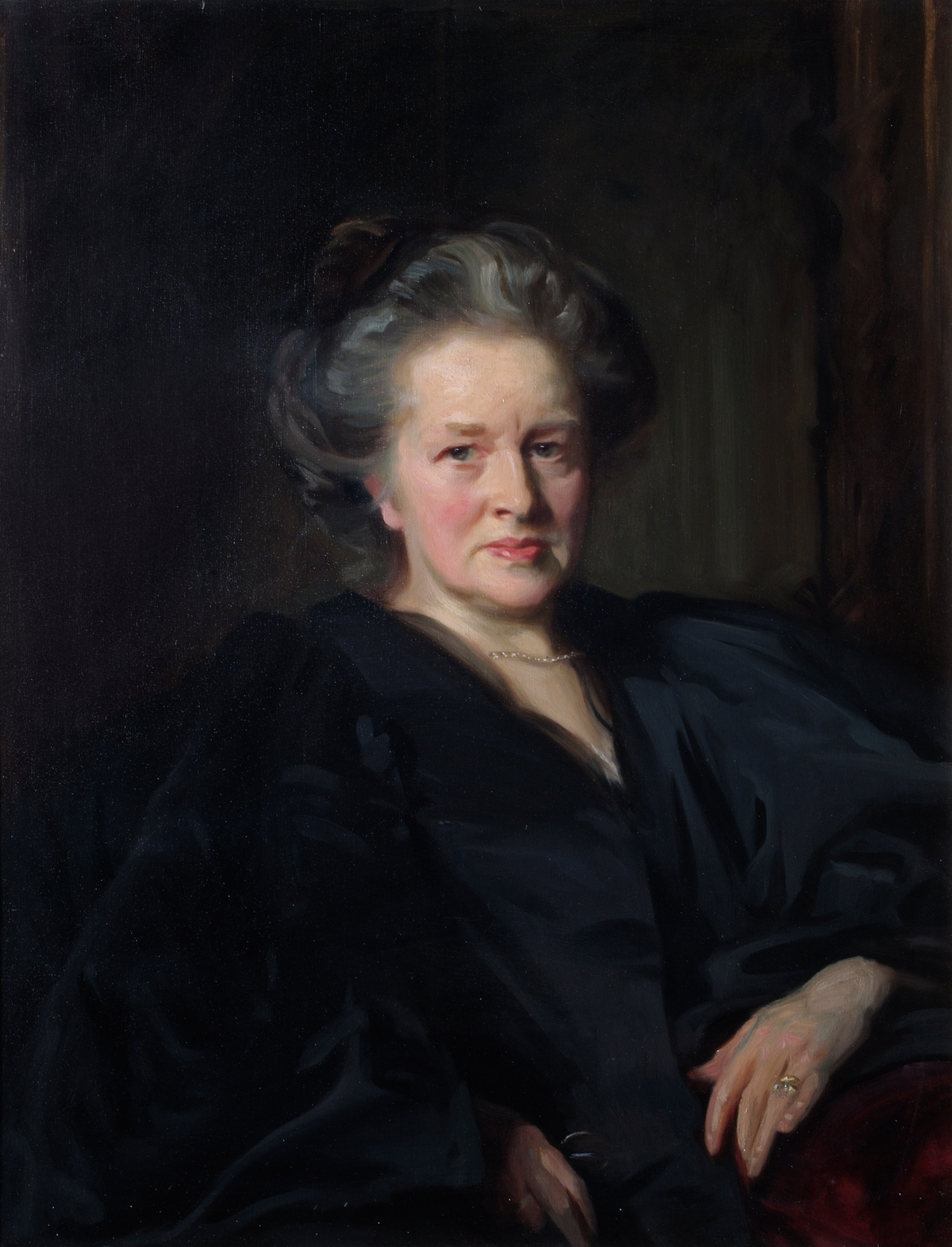 A 1900 portrait of Elizabeth Garrett Anderson, LSA, MD (9 June 1836 – 17 December 1917), an English physician and feminist, the first Englishwoman to qualify as a physician and surgeon in Britain, the co-founder of the first hospital staffed by women, the first dean of a British medical school, the first female M.D. in France, the first woman in Britain to be elected to a school board and the first female mayor and magistrate in Britain.